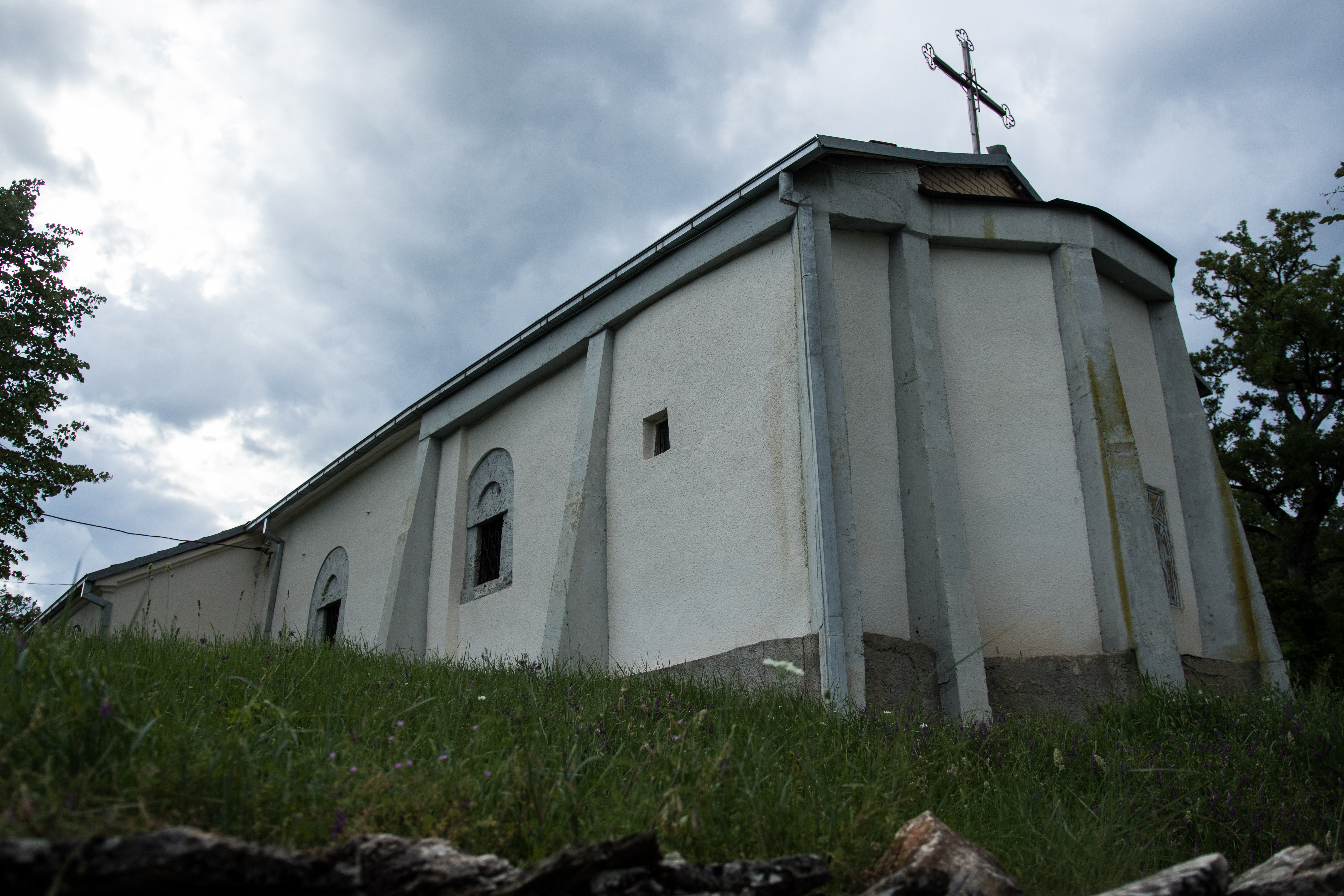 View of the St. Petka Church in the village Žvan